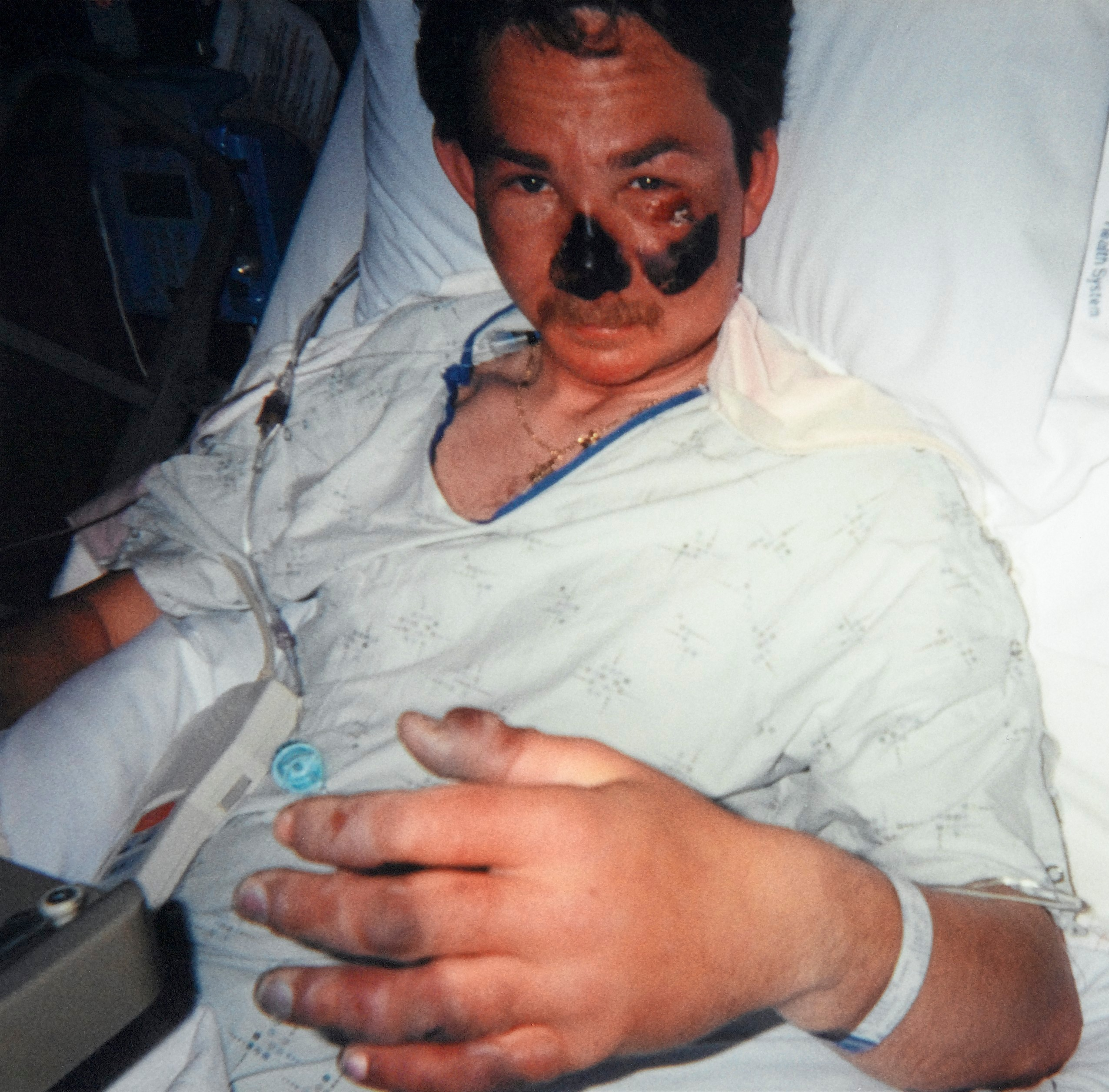 Mountaineer (Nigel Vardy) in hospital with frostbitten face and hands following severe exposure whilst trapped on Mount McKinley in temperatures of minus 30C in 1999. Guardian news story.